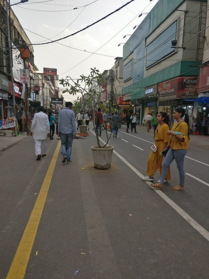 Karol Bagh Market - Revitalized 2019